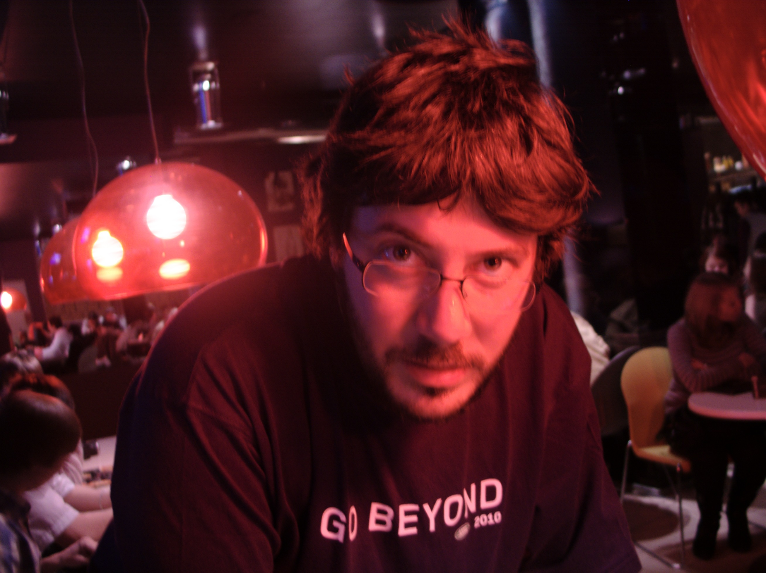 Artemy Lebedev, the founder of Art. Lebedev Studio, finishing his ethnographic expedition in Krasnoyarsk.